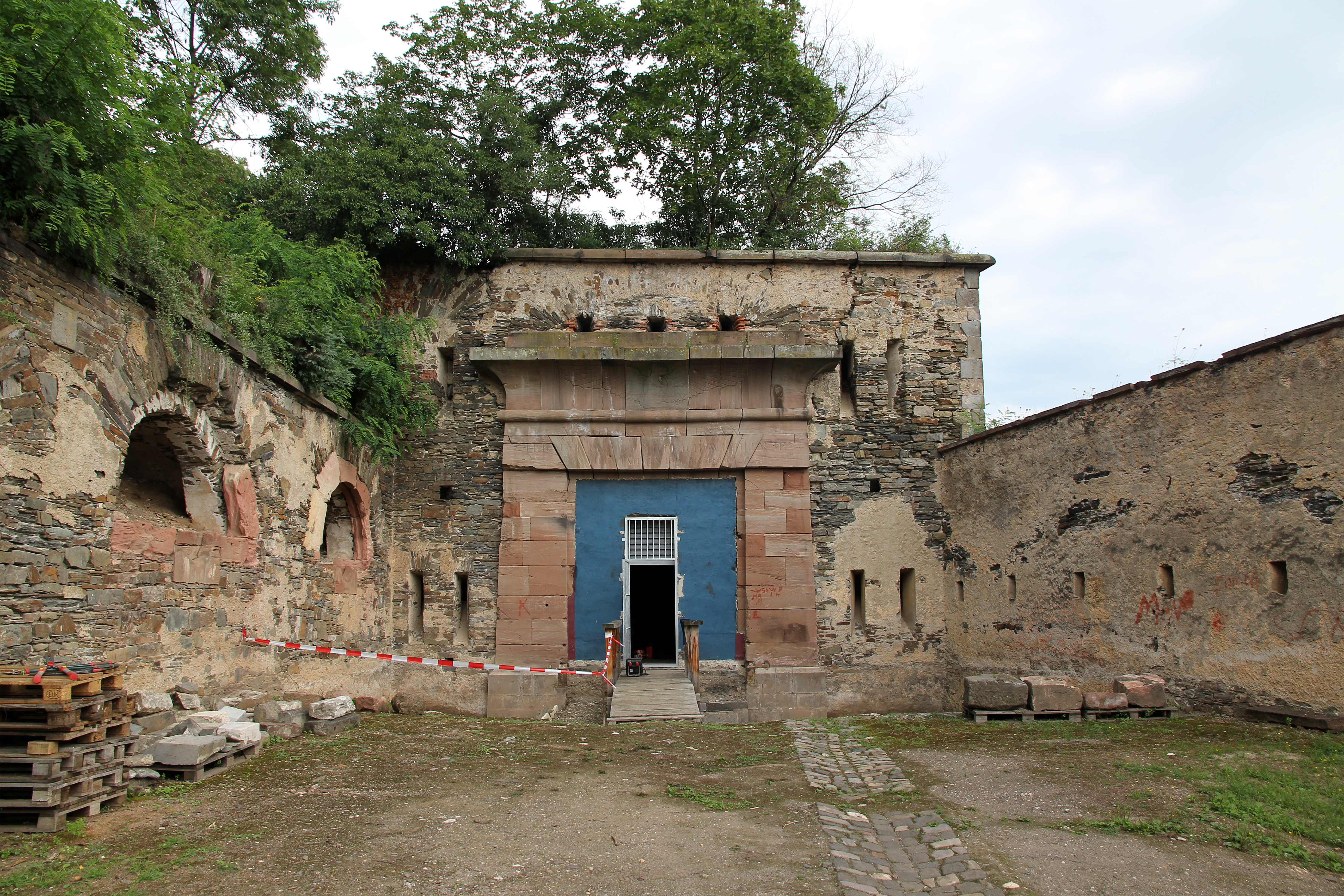 Feste Kaiser Franz in Koblenz